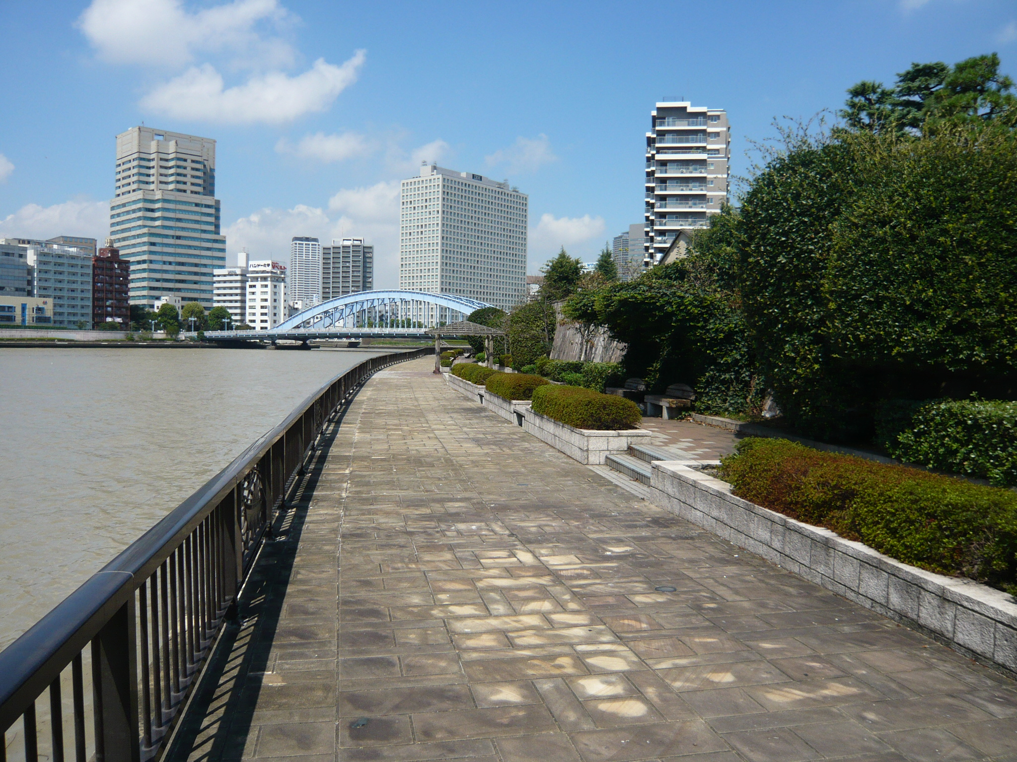 Eitai Park(永代公園) in Koto-ku,Tokyo,Japan.